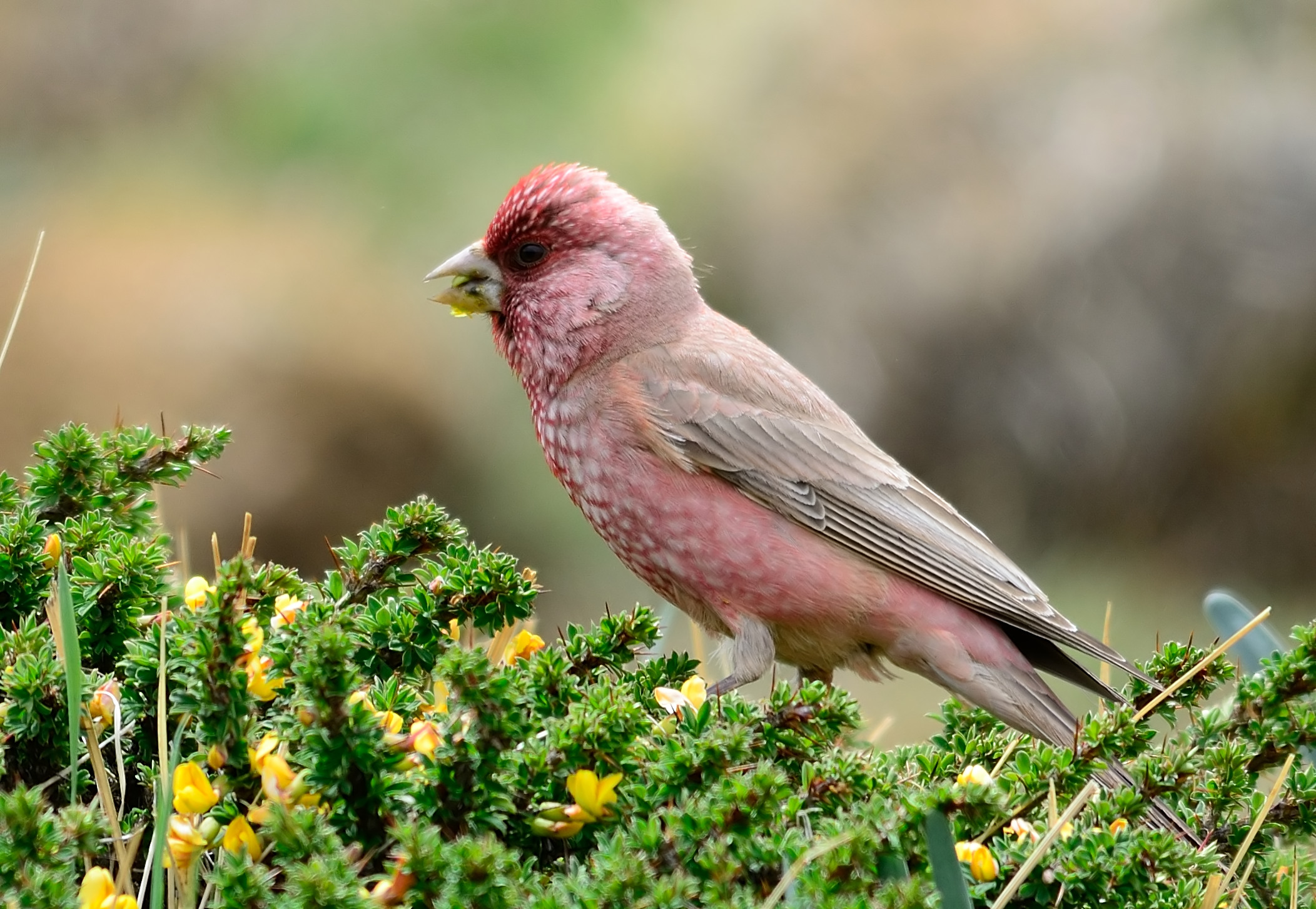 Great Rosefinch male (Carpodacus severtzovi) from Kibber, Himachal Pradesh